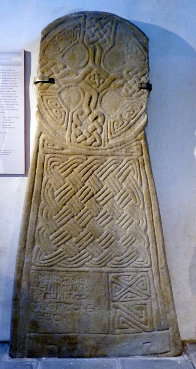 Lat 9th C slab cross, lattice patern Celtic Cross, and iinscribed 'The Cross of Christ +Enniaun For the soul of Guorgorest Had this made'. This is the earliest evidence of a Christian Monastery at Margam. It is now in the Margam Stones Museum.